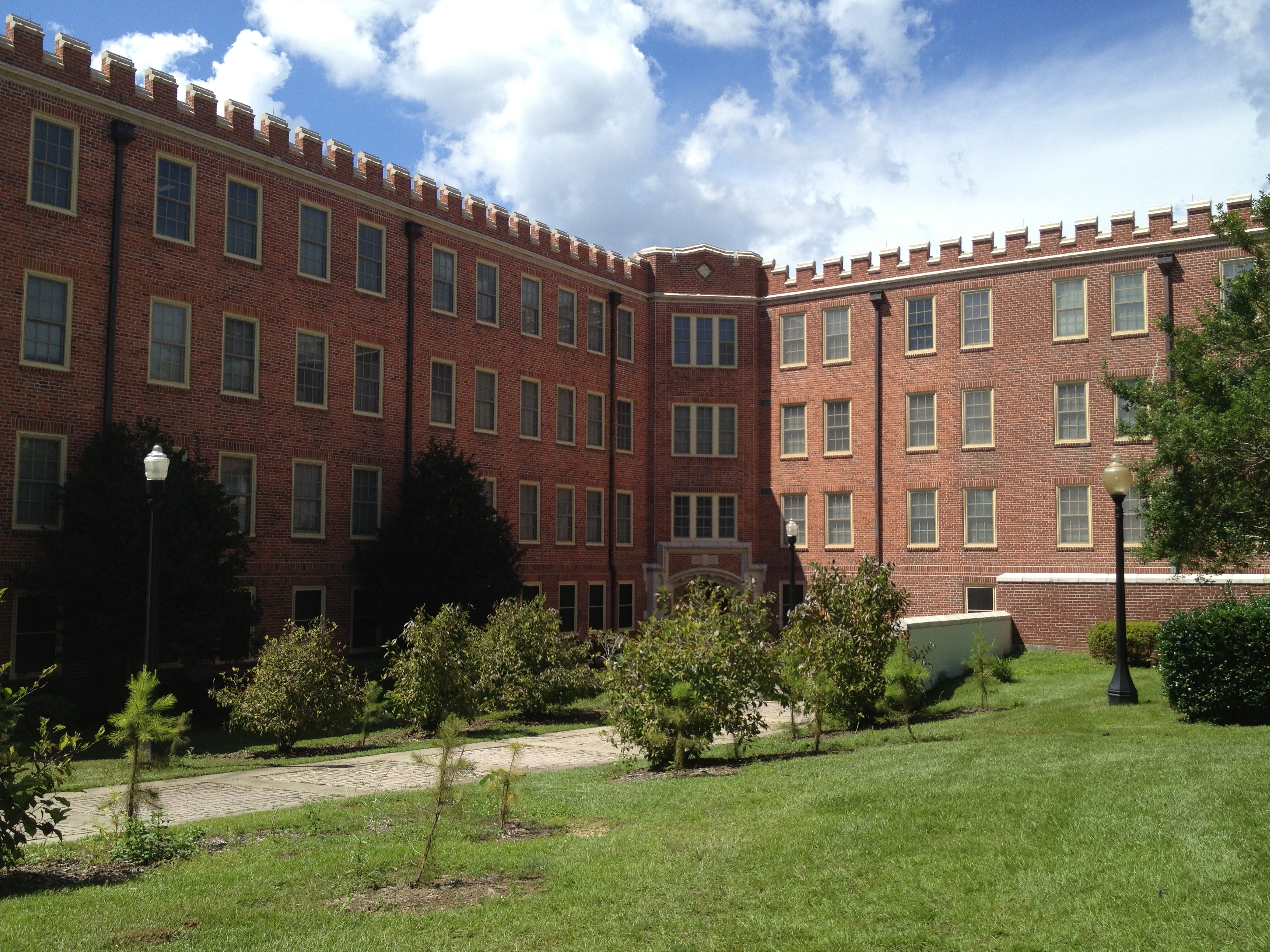 Broward Hall FSU